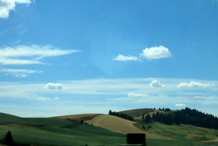 Moscow, Idaho